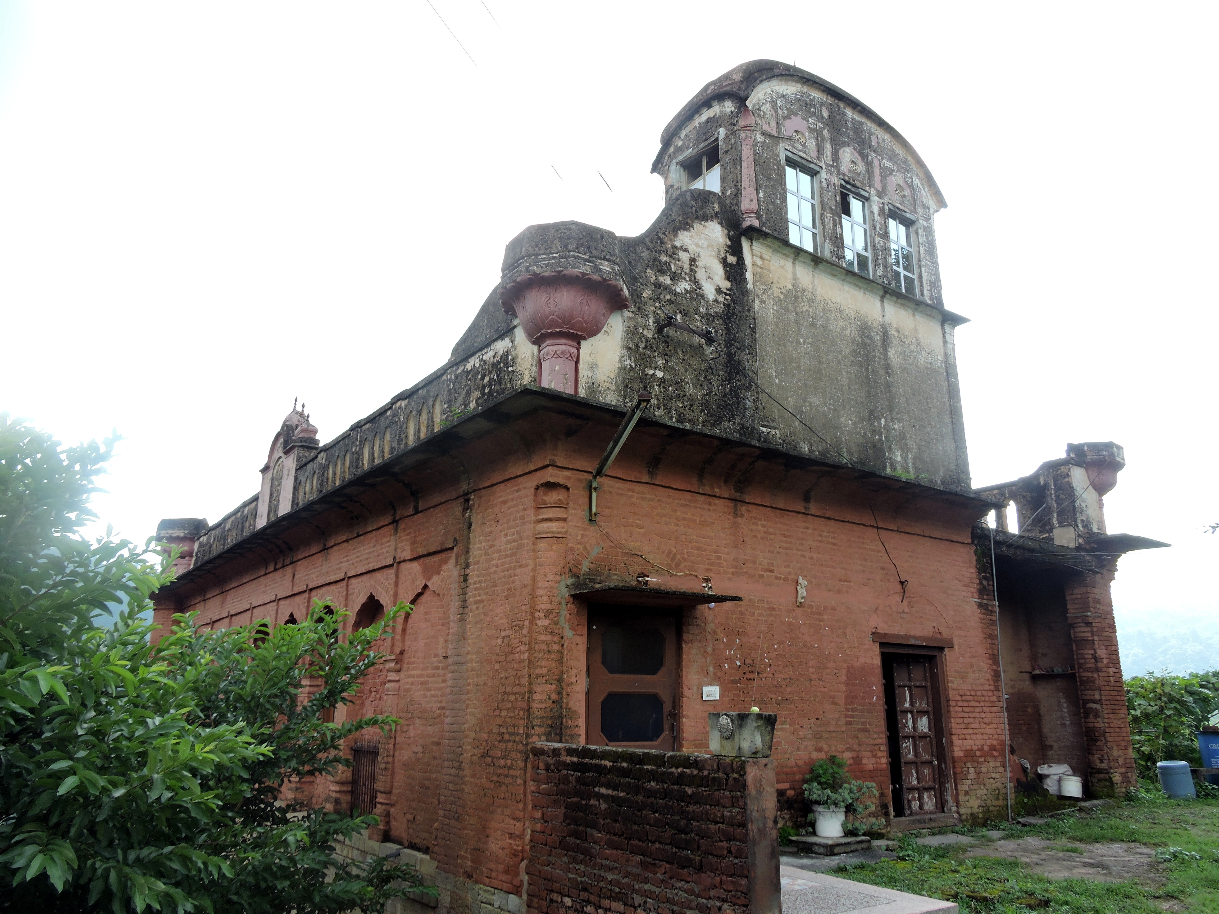 Fort of Beja Princely State ,Simla Hill States,Himachal Prades,India